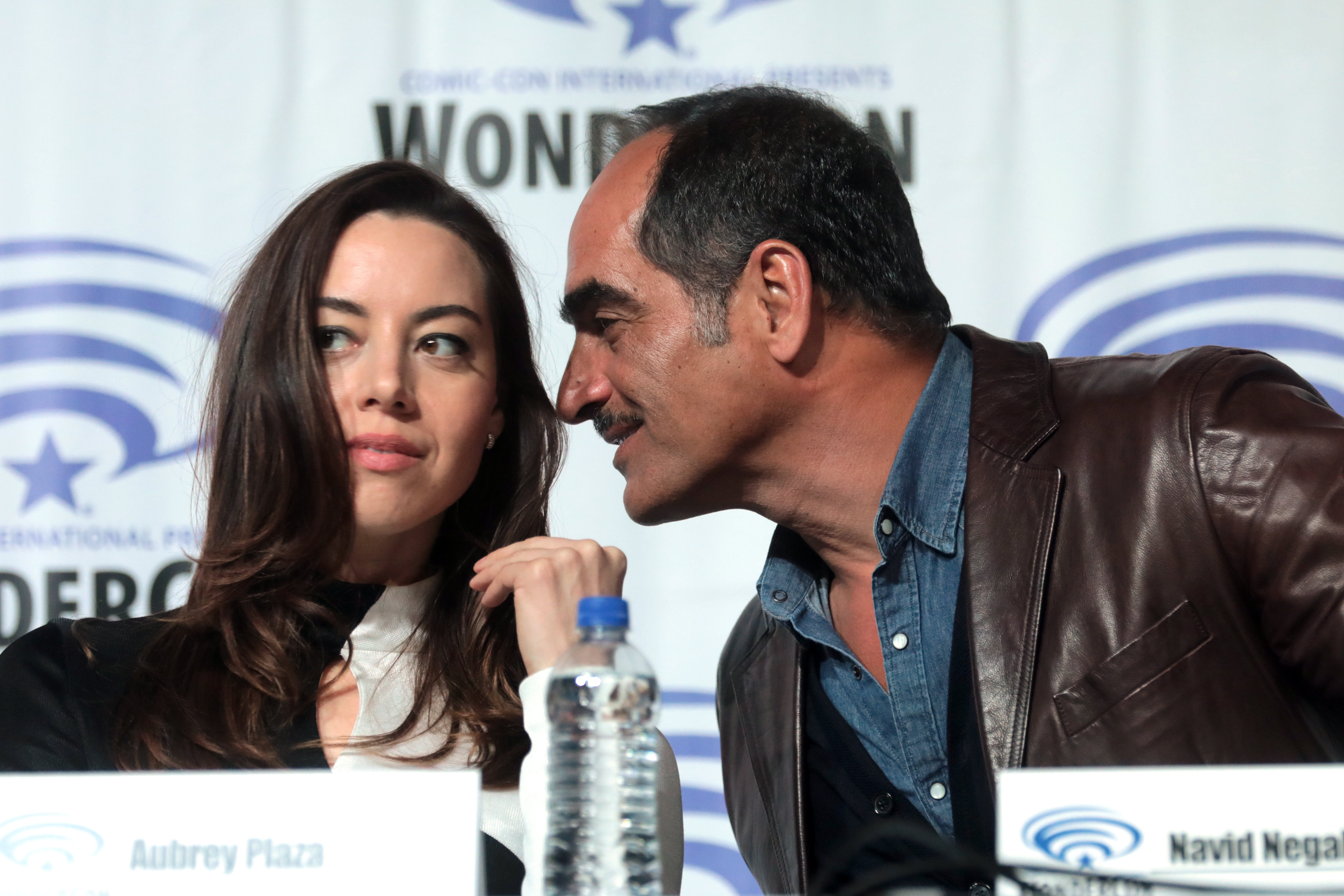 Aubrey Plaza and Navid Negahban speaking at the 2019 WonderCon, for "Legion", at the Anaheim Convention Center in Anaheim, California.